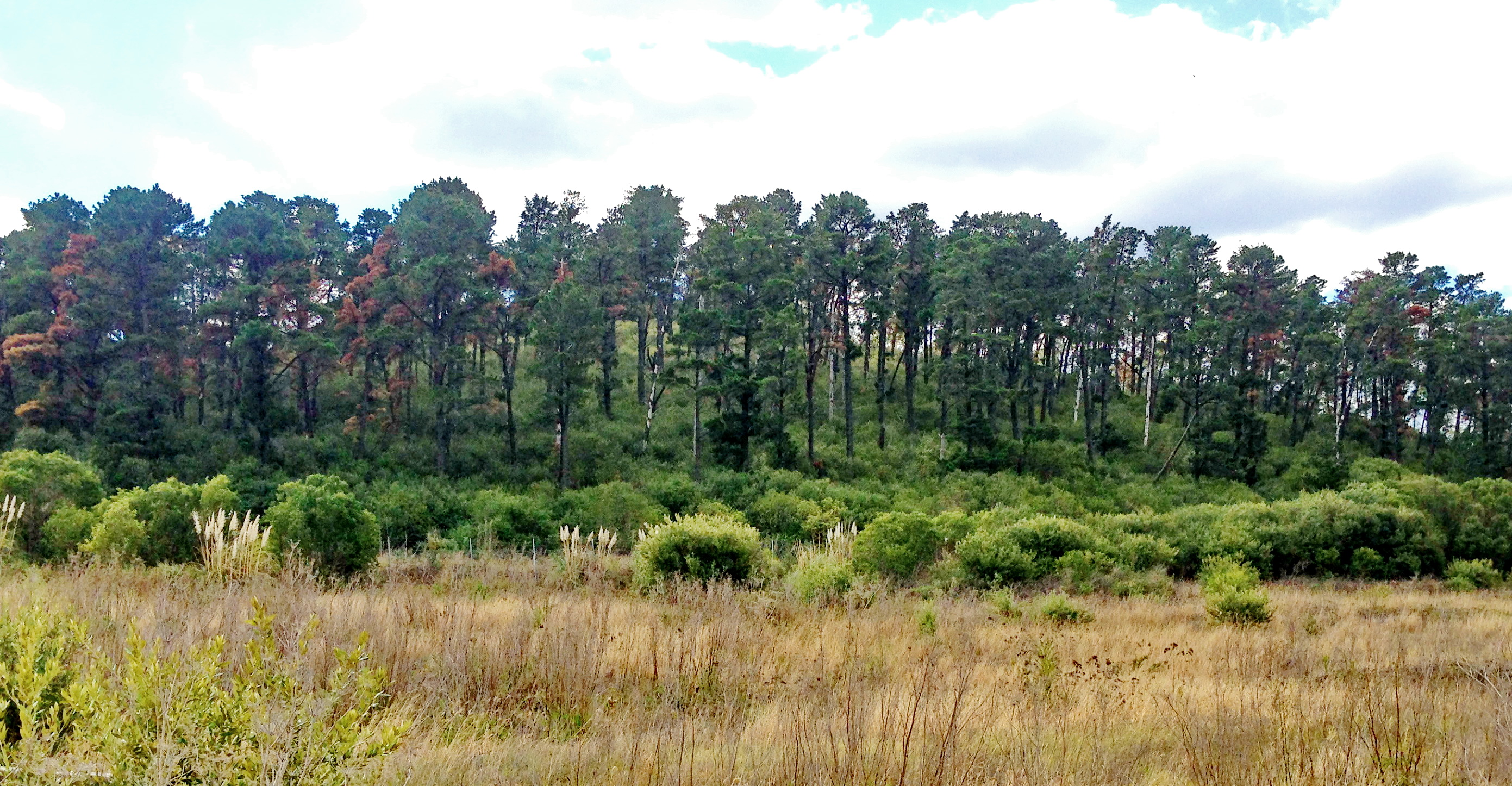 A Pinus Radiata forest in western Sydney, Australia.